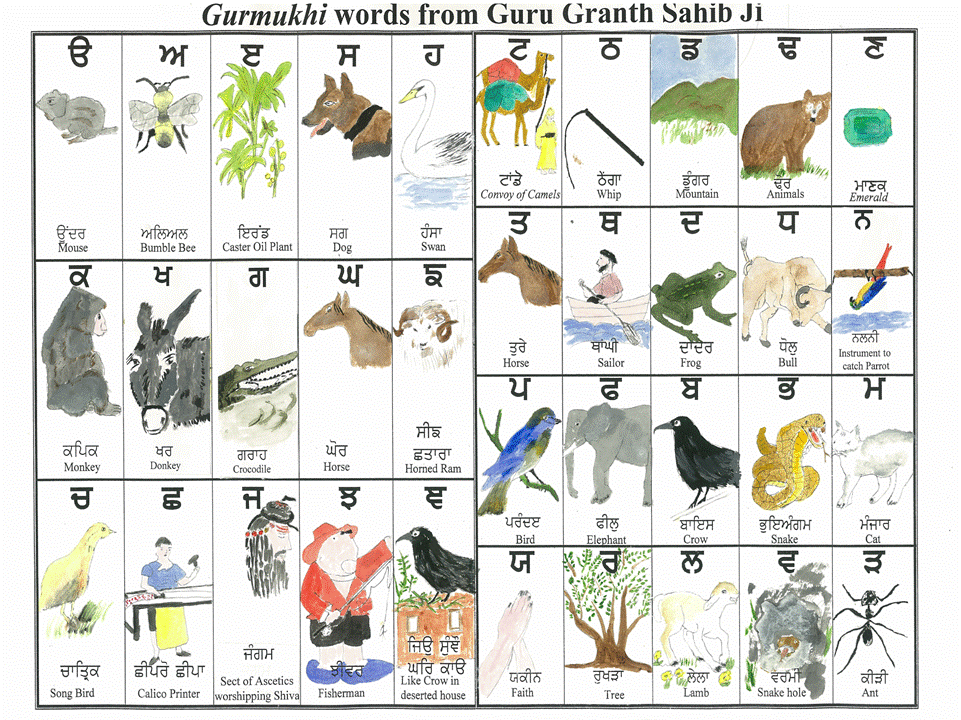 Gurmukhi poster animal names in gurmuki ਪੰਜਾਬੀ: gurmukhi poster